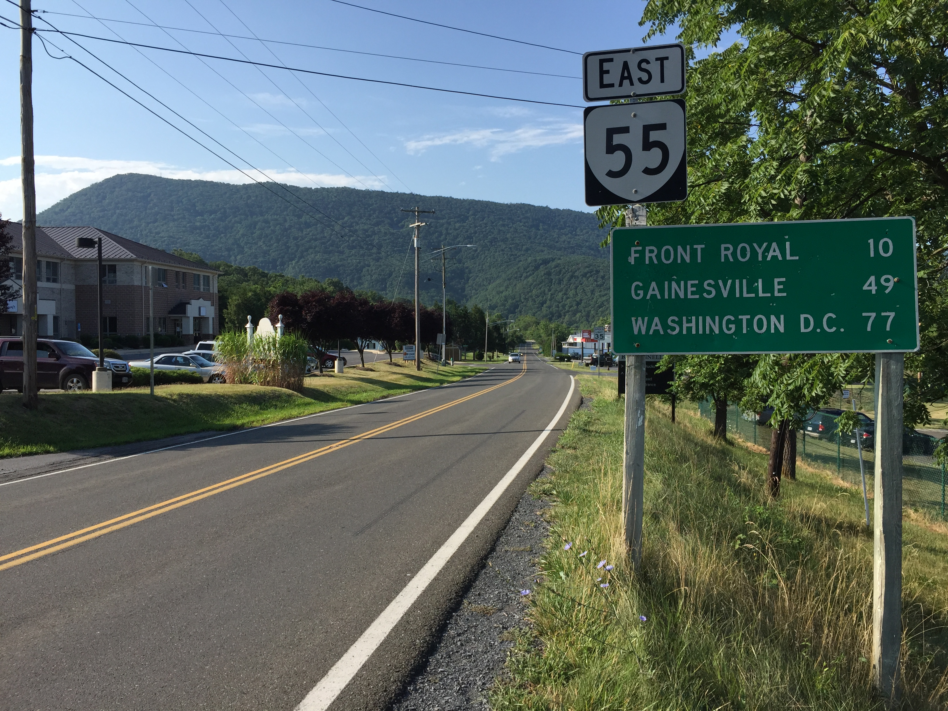 View east along Virginia State Route 55 (Front Royal Road) just east of Jackson Street in Strasburg, Shenandoah County, Virginia